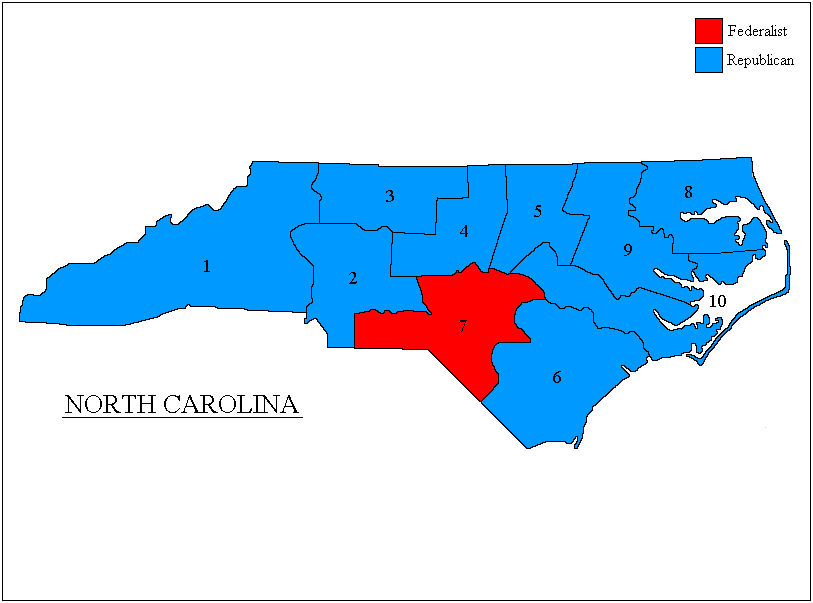 Congressional district map of North Carolina for the 5th Congress, 1796